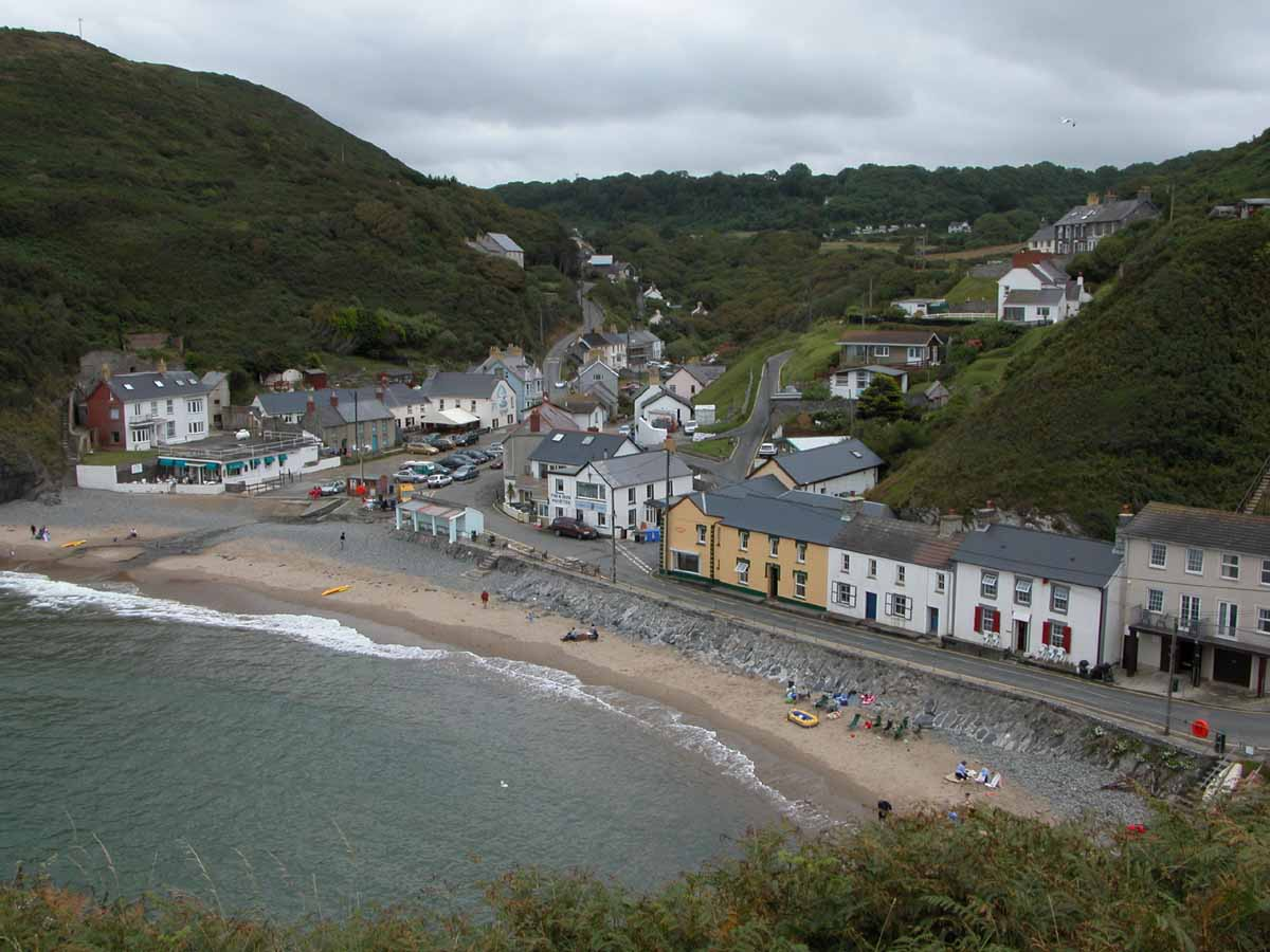 Photograph of Llangrannog taken from the south cliffs.